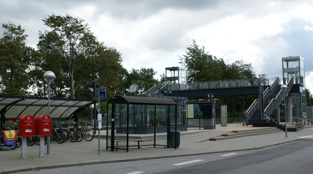 Støvring railwaystation, Rebild kommune, Denmark